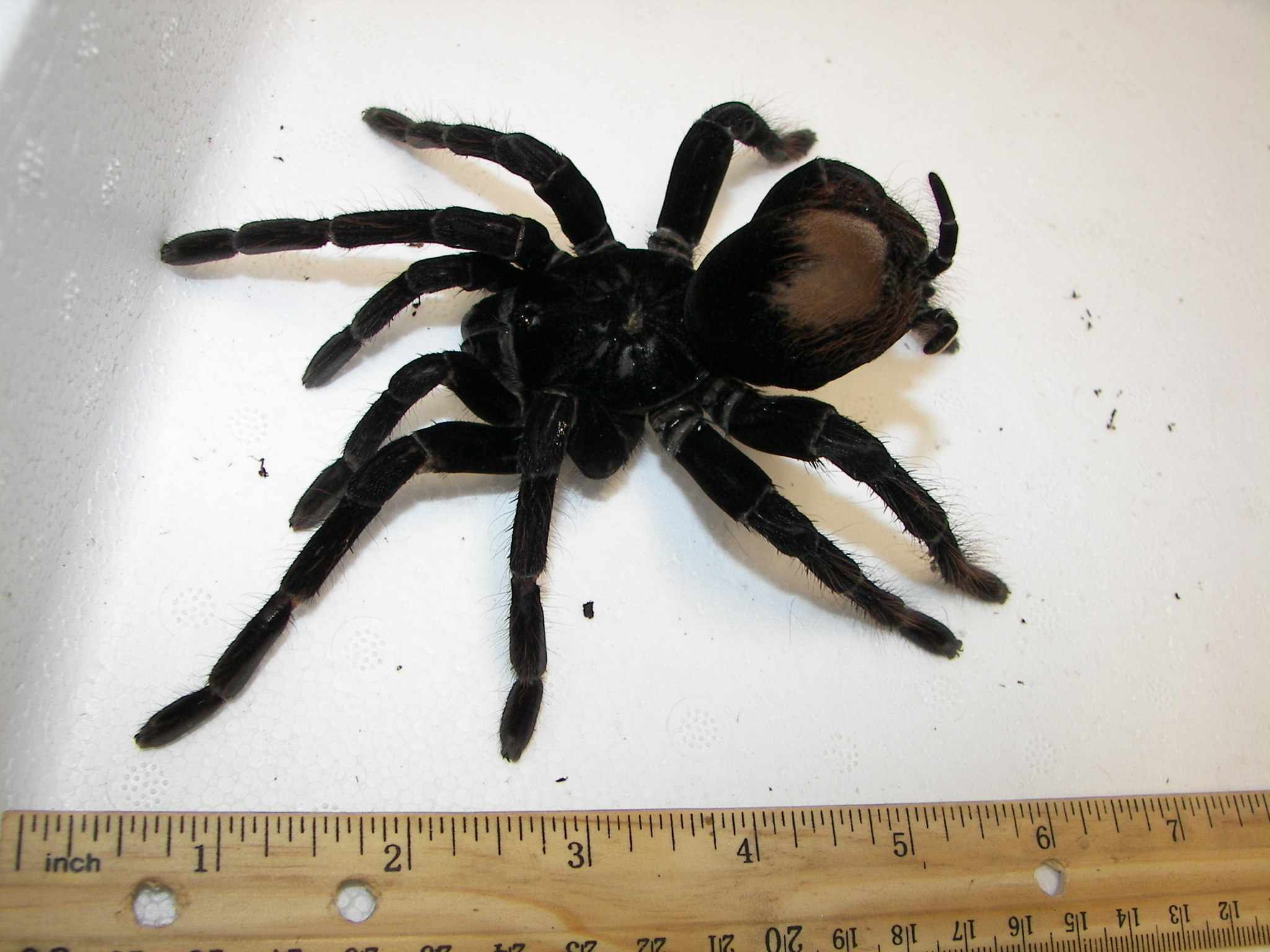 Female Pamphobeteus antinous, lateral.